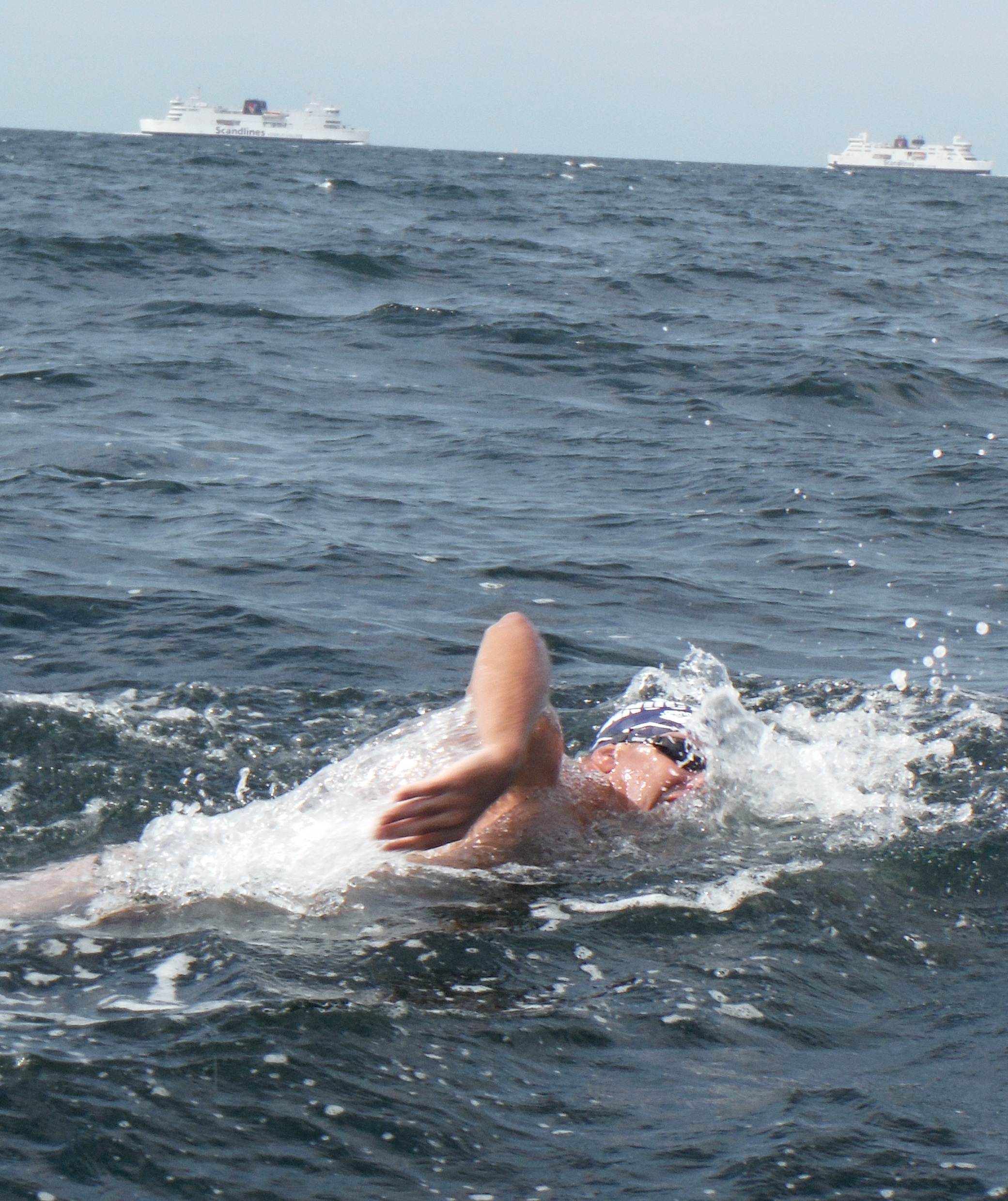 Beltquerung Strait Swim (Germany - Danemark)